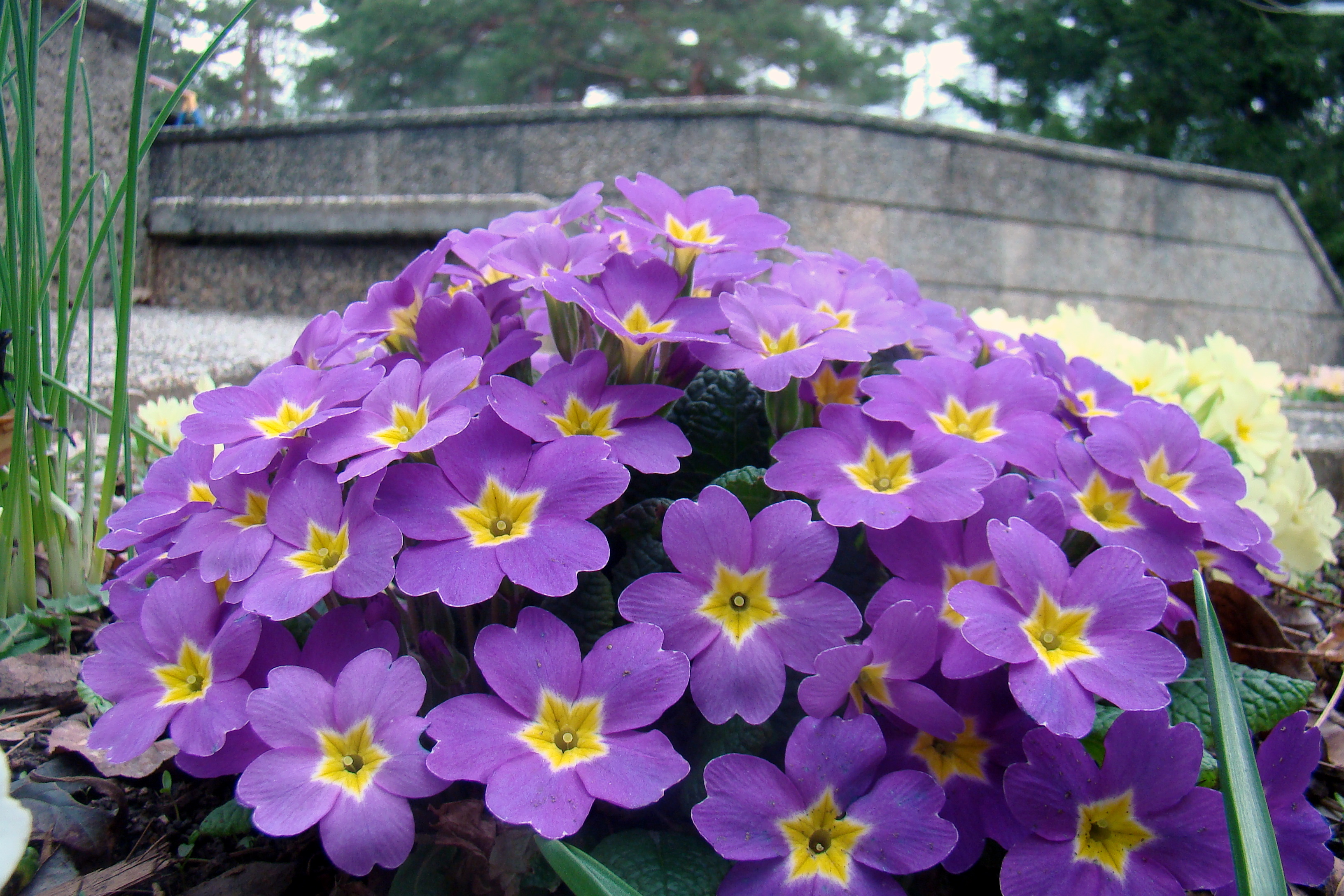 This image shows Primula vulgaris.